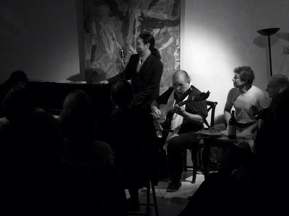 Spectacle with Hugo Diaz Cardenas on guitar with Guillermo Venturino on percussion.